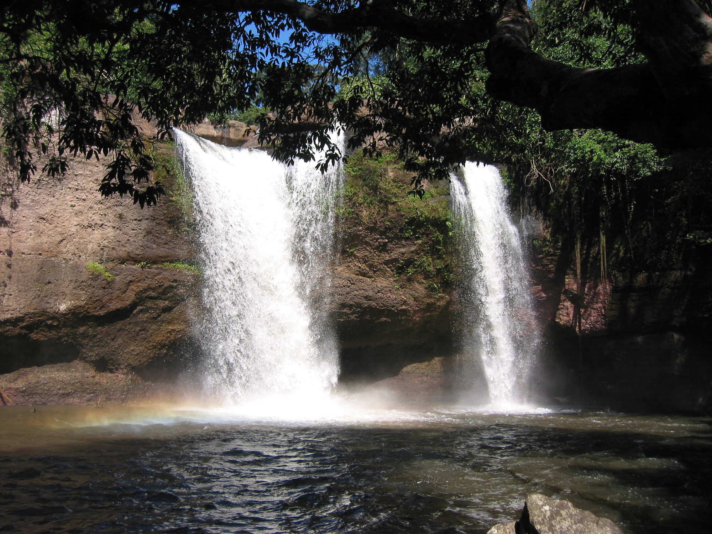 Heo Suwat waterval in Khao Yai NP Thailand. Foto door Jacco van Trigt